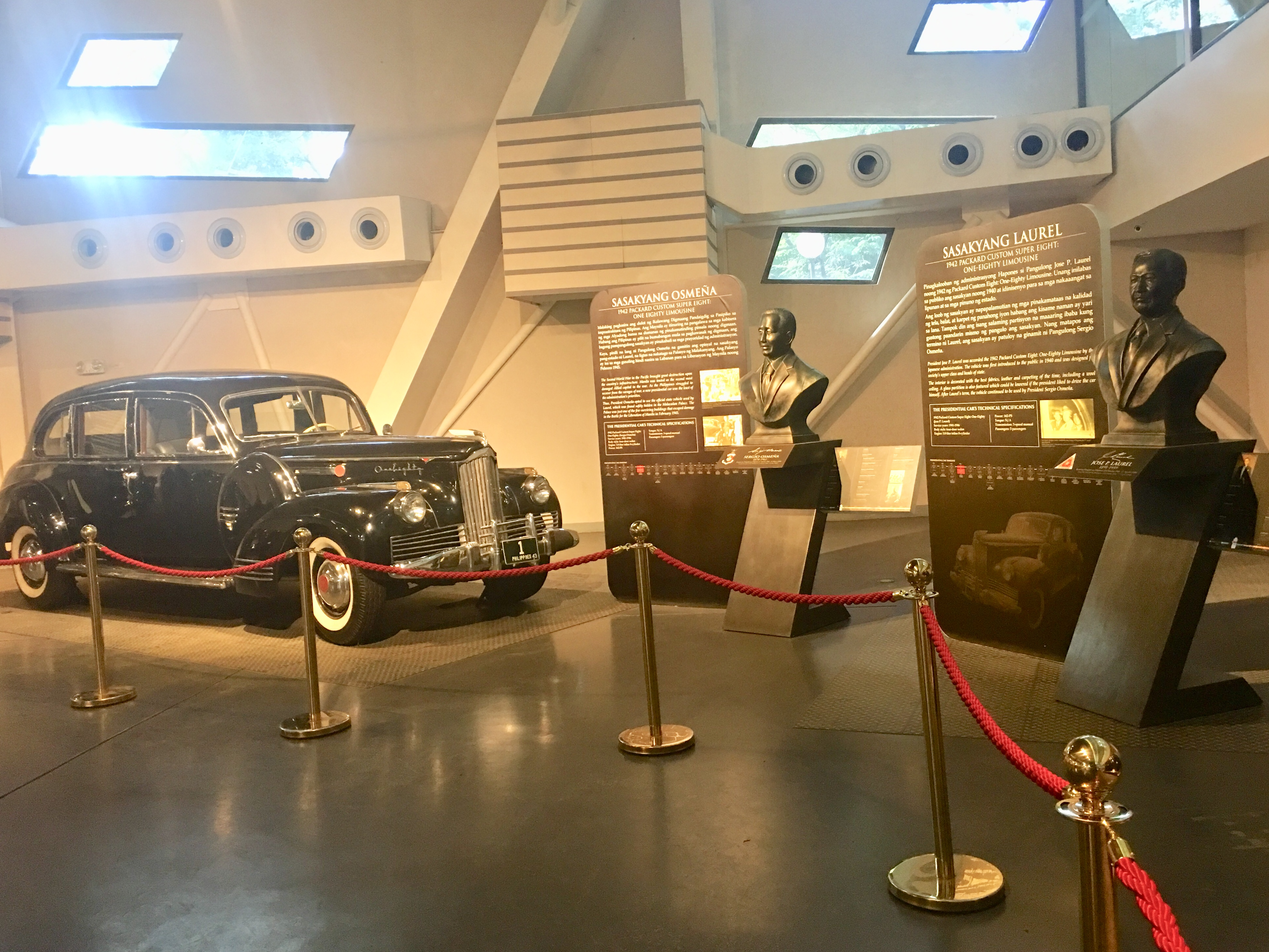 1942 Packard Custom Super Eight One-Eighty LimousinePresidential car of Jose P. Laurel and Sergio Osmeña